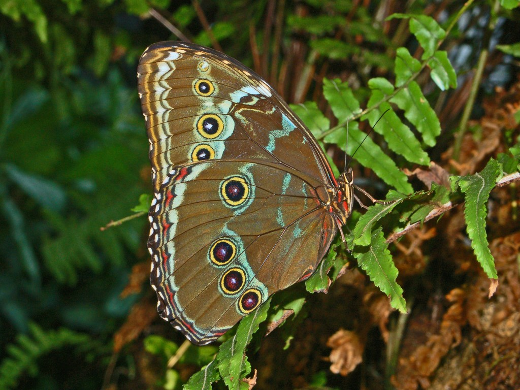 Morpho achilles - Niagara Falls Conservatory